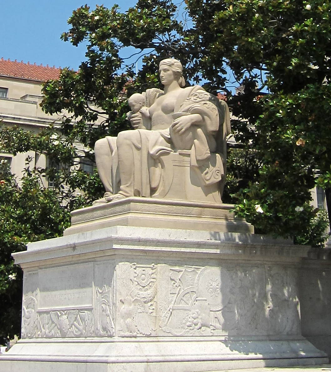 Heritage (1935, James Earle Fraser) located on the southwest corner of the National Archives Building in Washington, D.C.